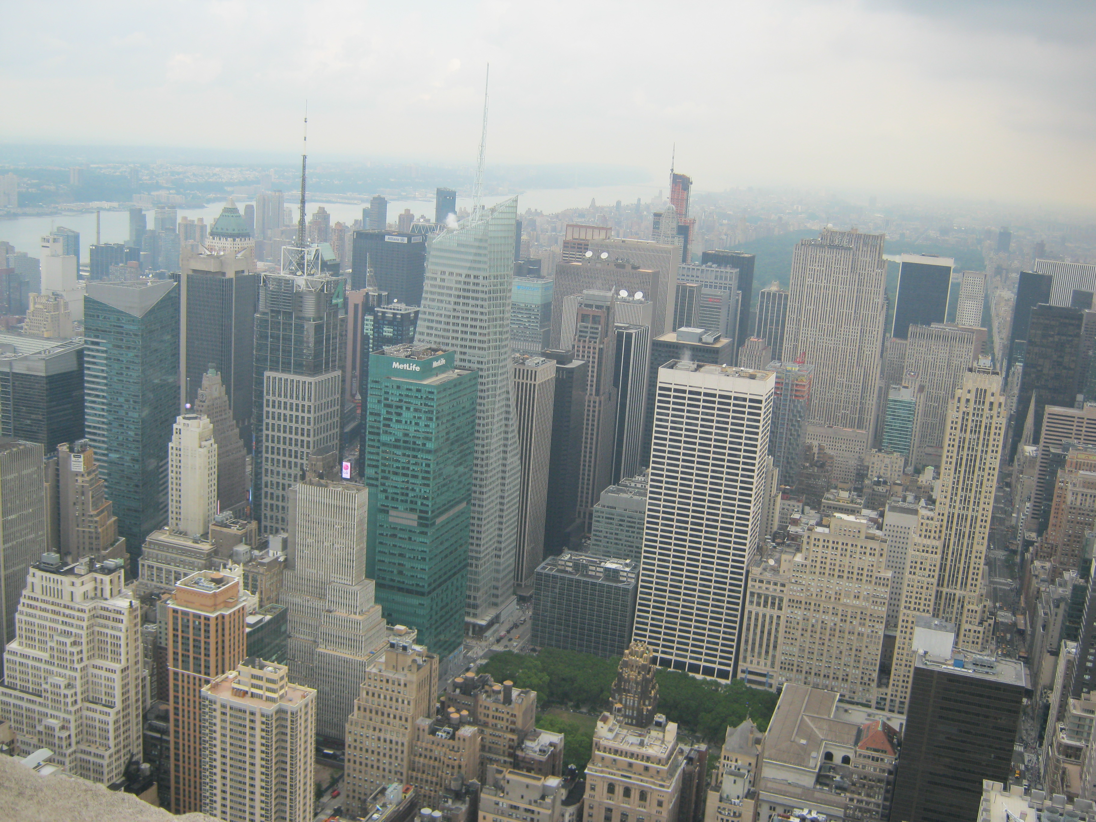 The view of Mid-Town New York City on August 1, 2012